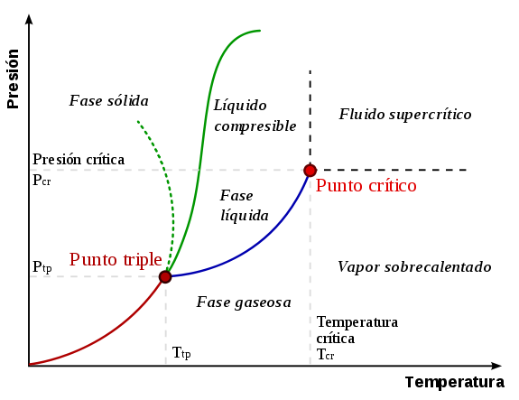 Spanish Translation from File:Phase-diag.svg